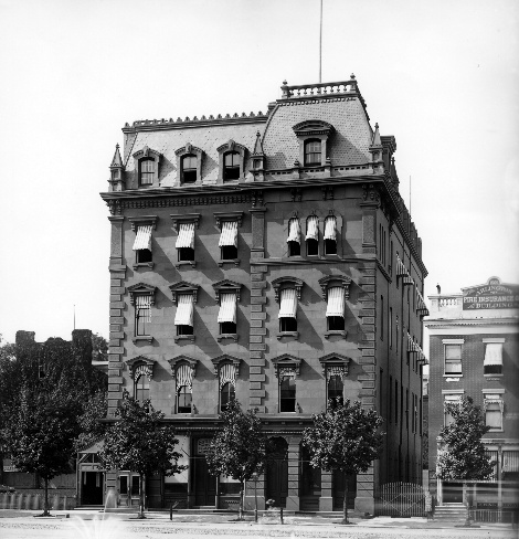 The former Freedman's Savings Bank on Pennsylvania Avenue NW in Washington, D.C. The site is now occupied by the Treasury Annex.